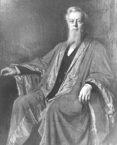 Frederick Augustus Porter Barnard Artist Eastman Johnson, 29 Jul 1824 - 5 Apr 1906 Sitter Frederick Augustus Porter Barnard, 1809 - 1889 Date 1886 Type Painting Medium Oil on canvas Dimensions 124.5cm x 100.3cm (49" x 39 1/2"), Accurate Credit Line Current Owner: Columbia University, Art Properties Website: Object number COO.110 CU Data Source Catalog of American Portraits See more items in Catalog of American Portraits